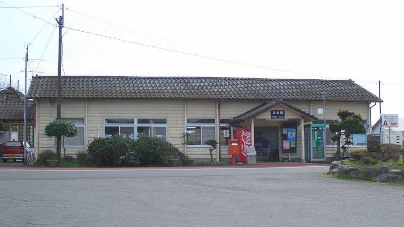 Kumagawa Railroad Yunomae Station, 14 March 2007